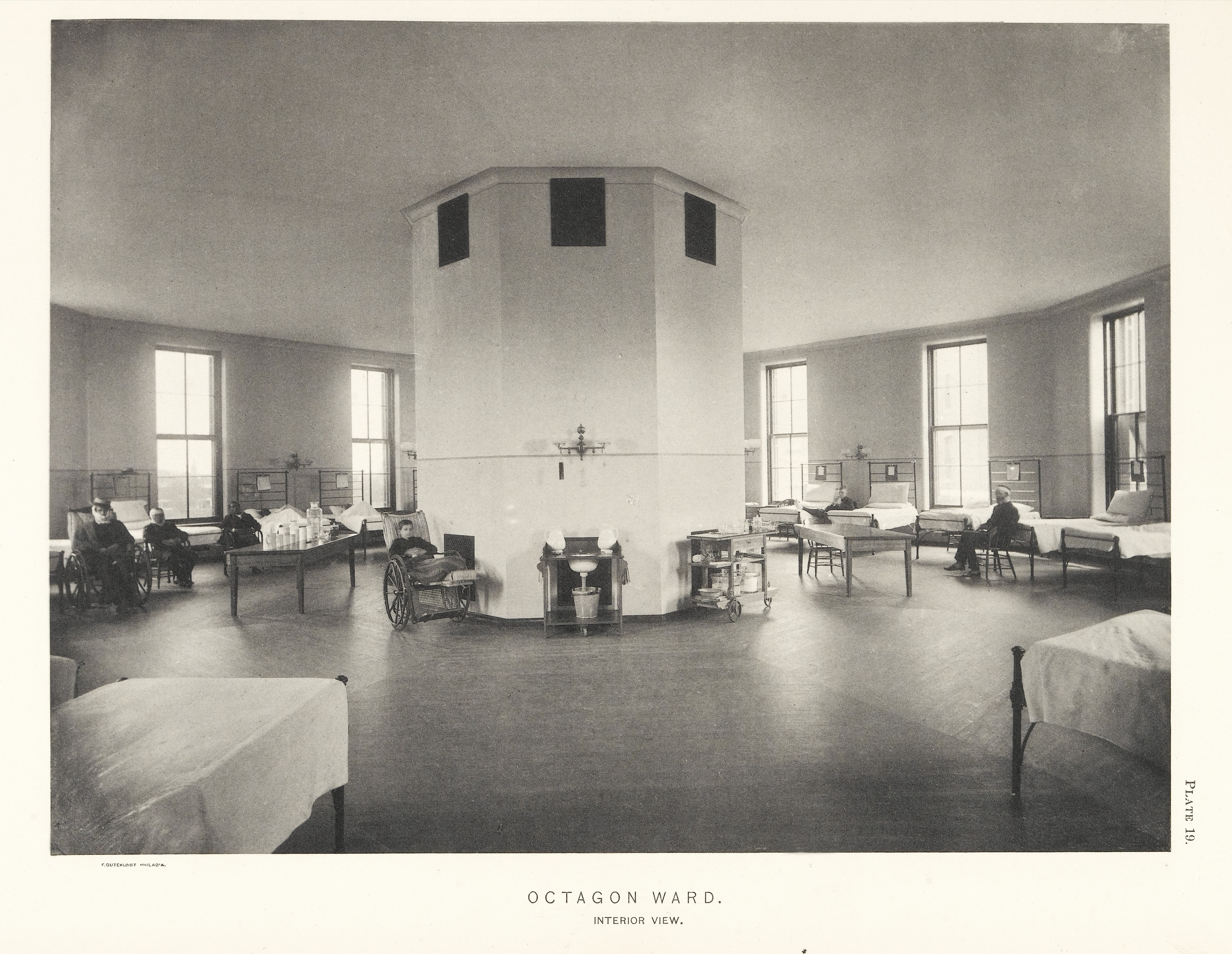 Octagon Ward at Johns Hopkins Hospital - interior Wellcome Images Keywords: John Shaw Billings